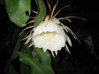 Epiphyllum oxypetalum (Epiphyllum species)